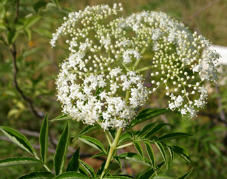 Sambucus canadensis- American Elderberry, American elder, elderberry, sweet elder, shambhukosha- in Herbal Garden, in Rangareddy district of Andhra Pradesh, India.